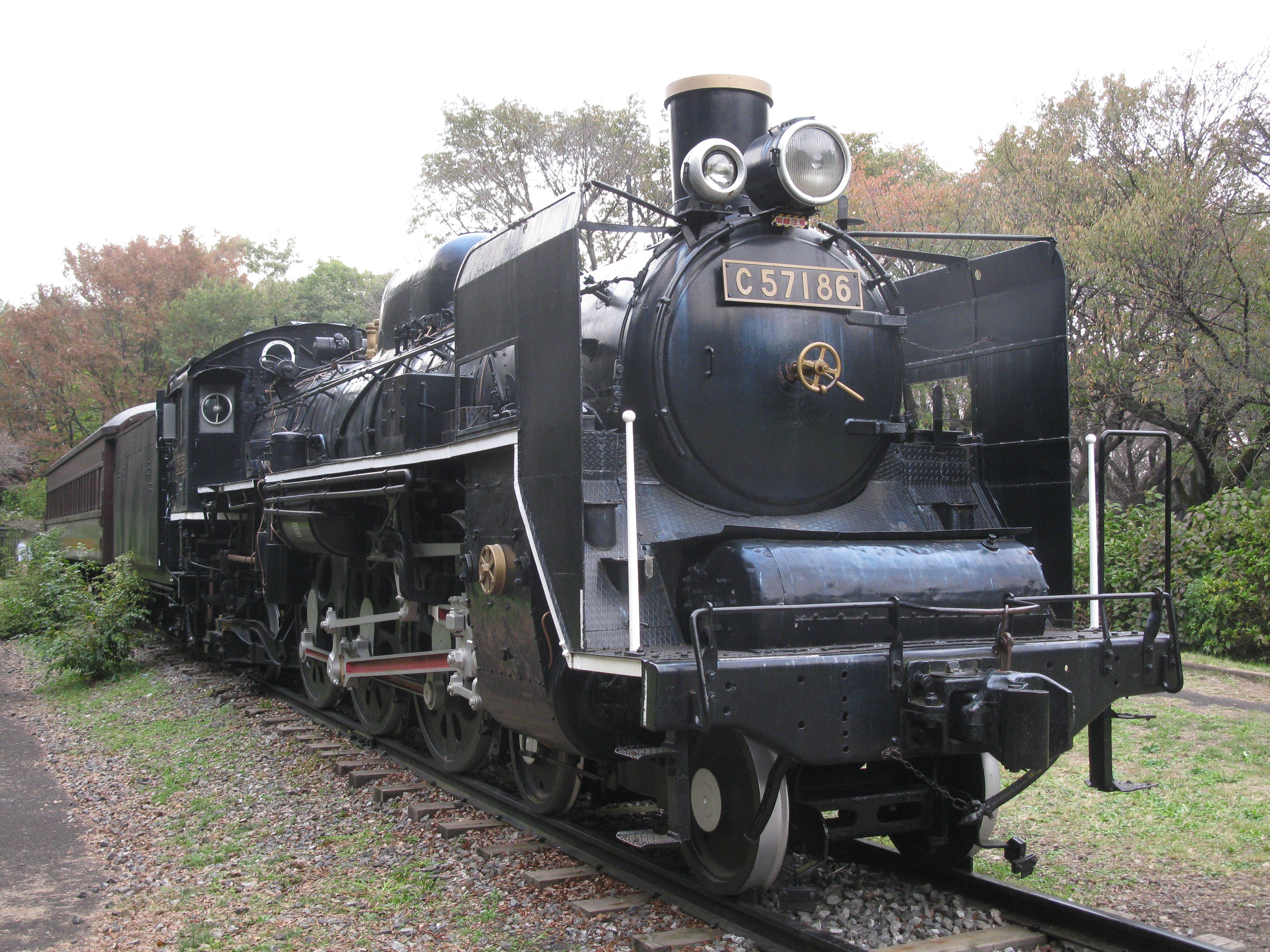 JNR Steam Locomotive Class C57 186 (Stored at Koganei city, Tokyo, Japan)